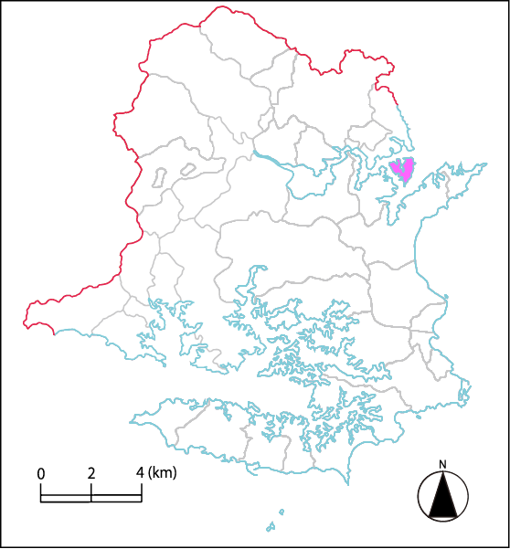 This is the map of Isobecho-Watakano, Shima, Mie, Japan.